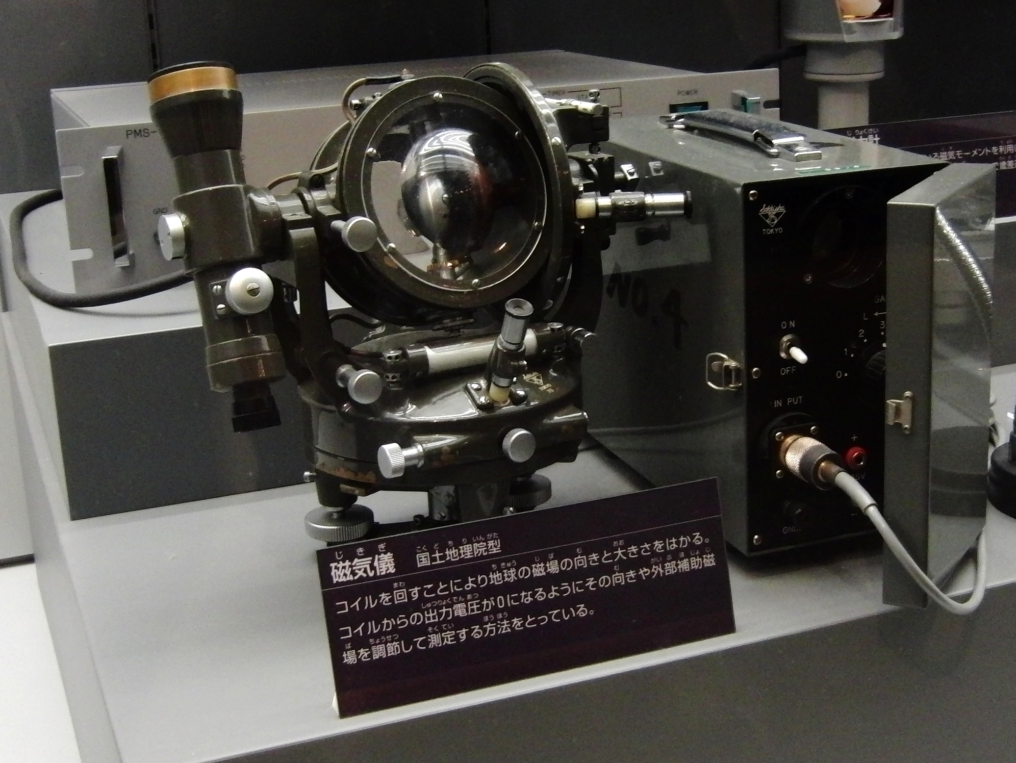 GSI type magnetometer (Earth inductor). Constructed by the former Geospatial Information Authority of Japan. Exhibit in the National Museum of Nature and Science, Tokyo, Japan.